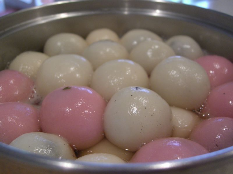 汤圆 Tang Yuan for 冬至 Winter Solstice The spots are bits of ground sesame leaking from within! :P